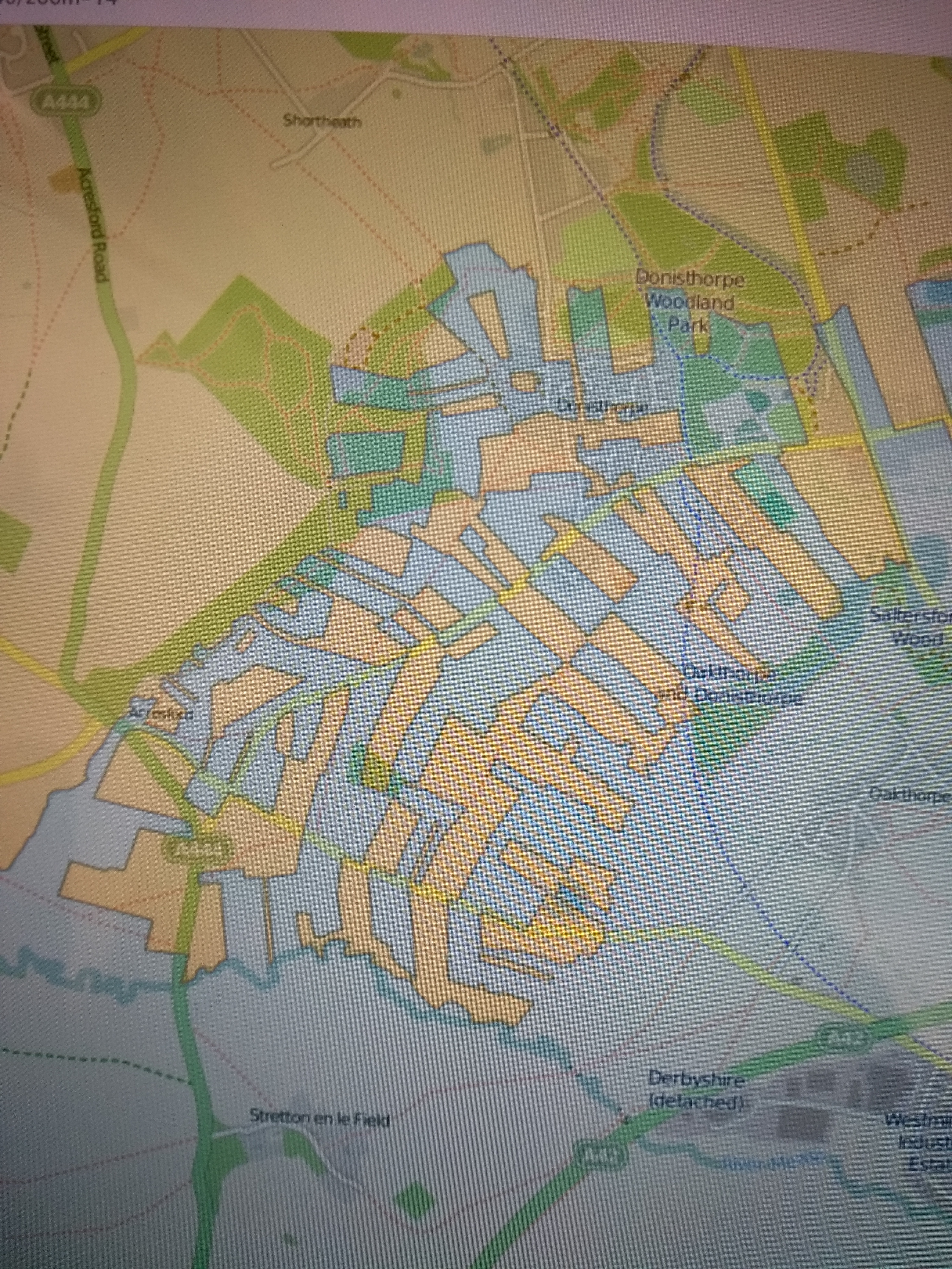 Leicestershire and Derbyshire in England, complex borders at Donisthorpe.